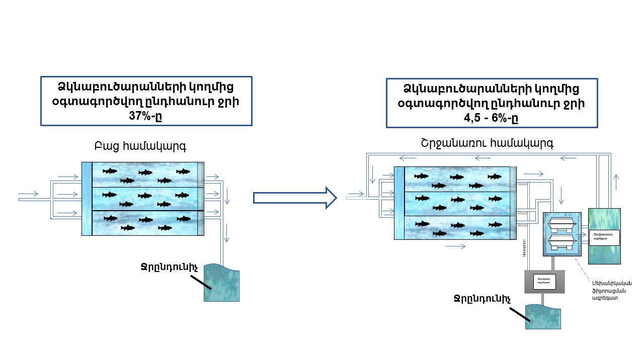 Switch from an extensive flow-through raceway system to a water efficient RAS technology will decrease the share of medium- and small-scale aquaculture farms in Total fisheries groundwater abstraction to 4.5-6.0% instead of current 37% .